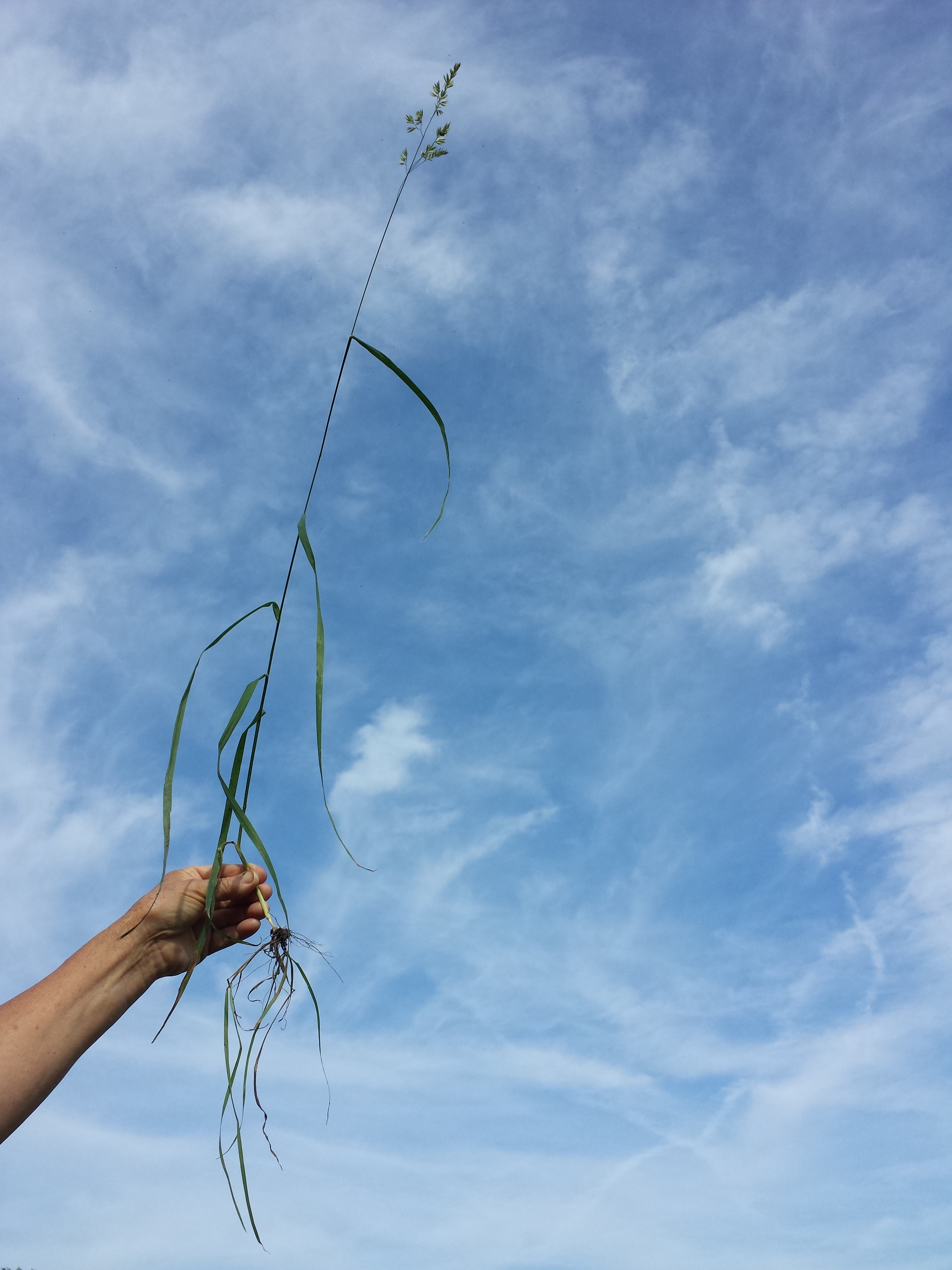 Habitus Taxonym: Dactylis polygama ss Fischer et al. EfÖLS 2008 ISBN 978-3-85474-187-9 Location: Rohrwald, district Korneuburg, Lower Austria - ca. 300 m a.s.l. Habitat: Carpinion betuli